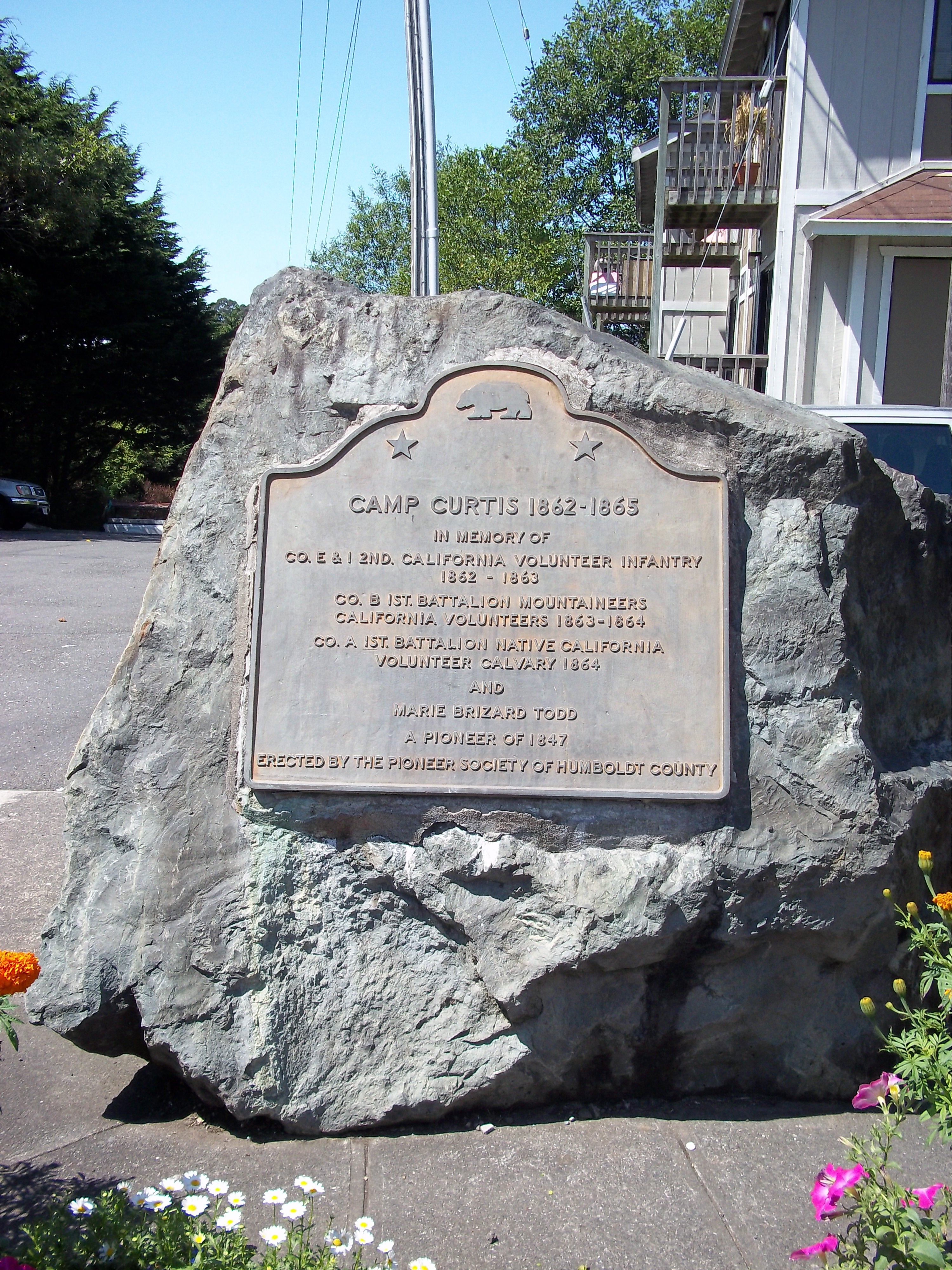 Plaque marking California State Historic Landmark #215, Camp Curtis